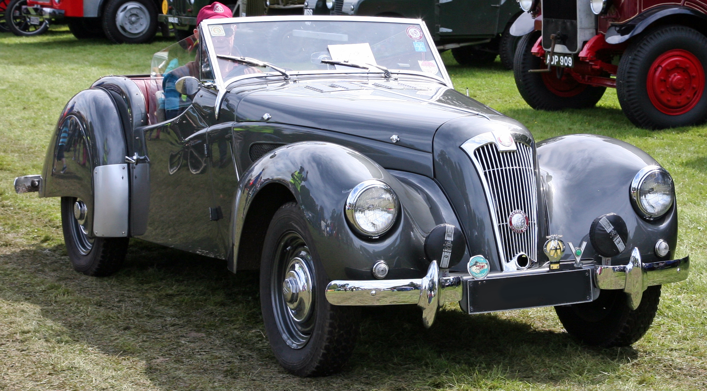 1950 Lea Francis Eighteen Sports Roadster. 2496cc, 100hp. This was the first year for the bigger-hearted "18".